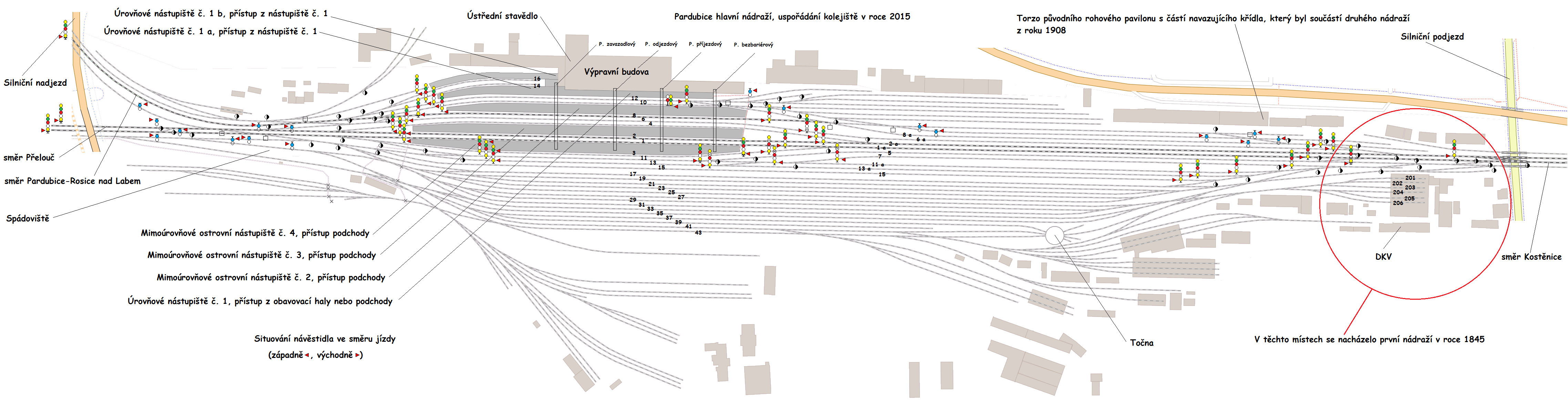 Pardubice train station (Czech Republic). OpenStreetMap image of map of Perdubice, 50°01′56″N 15°45′24″E / 50.032310°N 15.756550°E, from